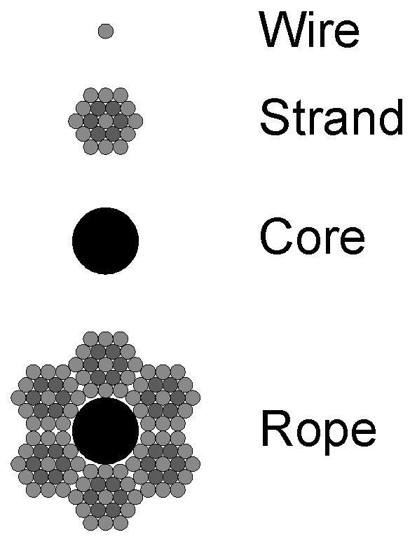 Diagram showing construction of 6x19 fibre core flexible wire rope